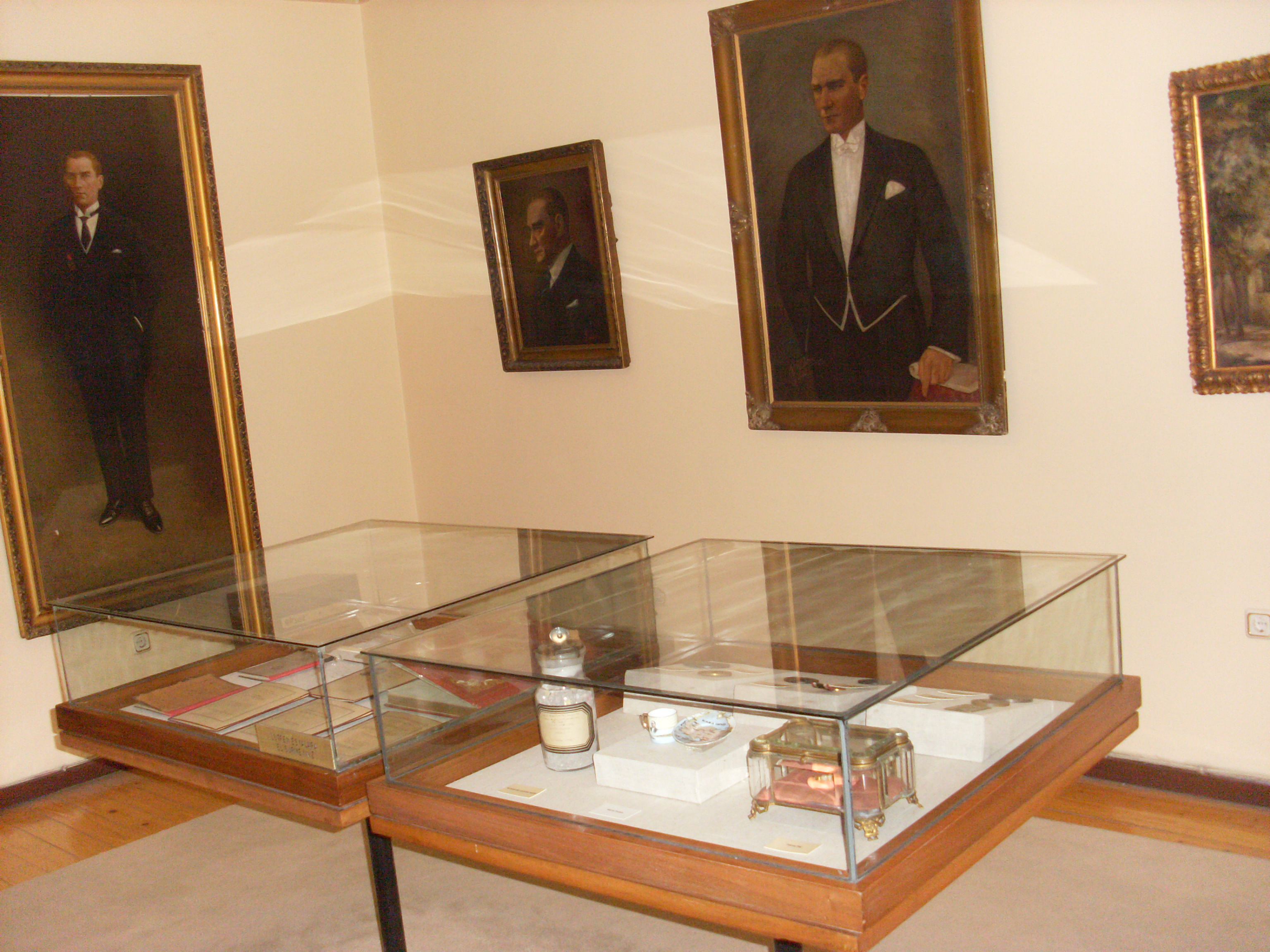 Atatürk Museum in Şişli, İstanbul, Turkey